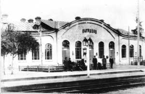 Pytalovo Pskovskoy Vokzal